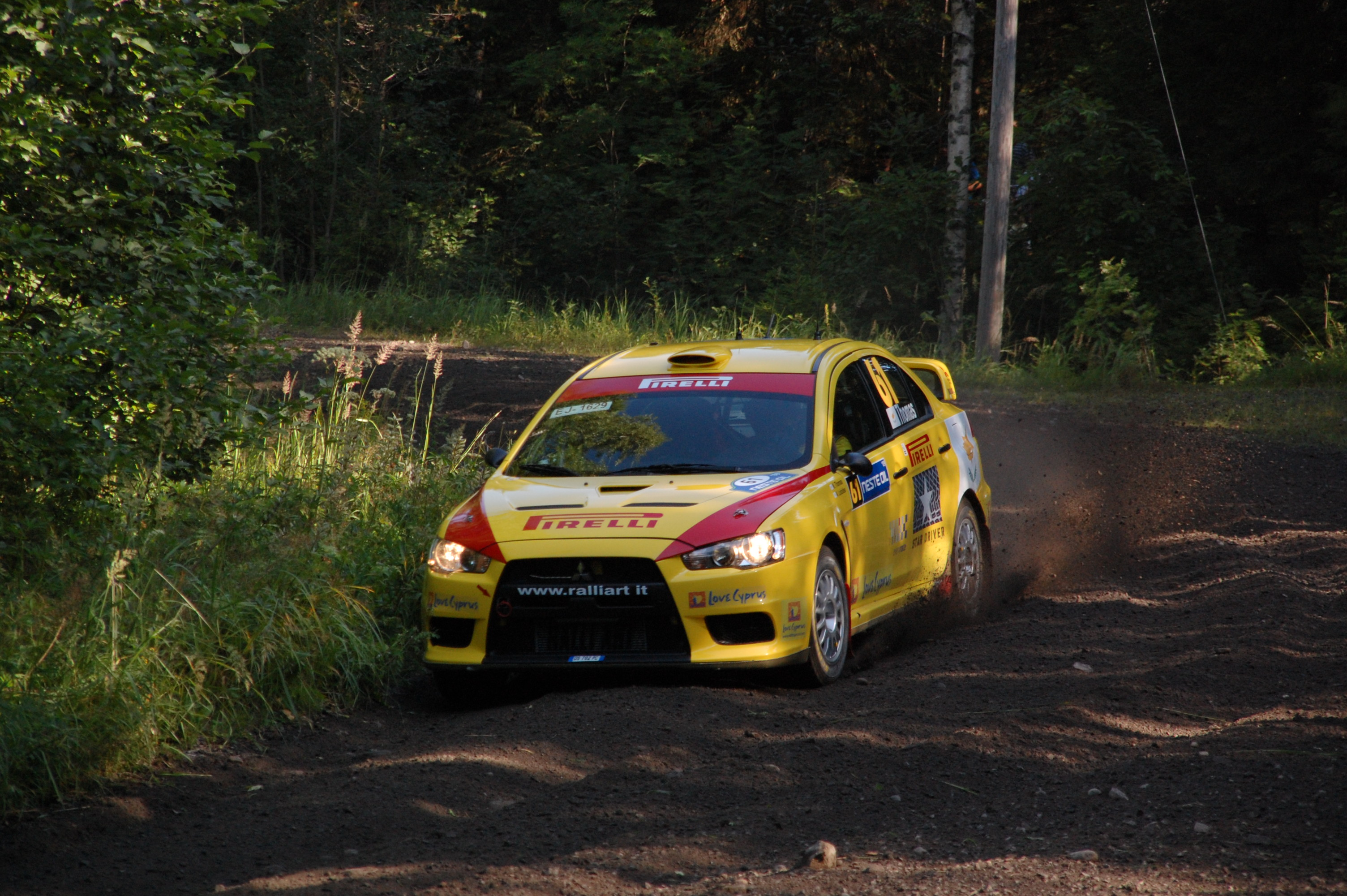 Nicos Thomas - 2009 Rally Finland. More pictures on my website